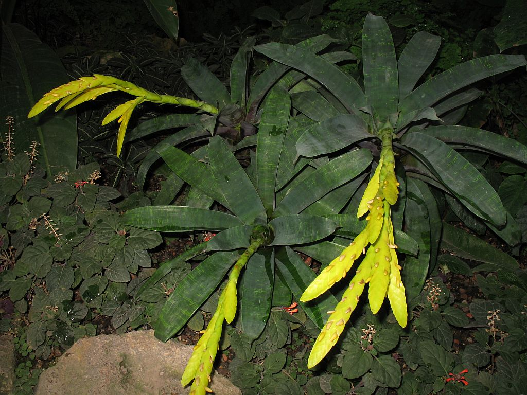 Vriesea ospinae var. gruberi in cultivation at the Botanical Garden of Heidelberg, Germany.